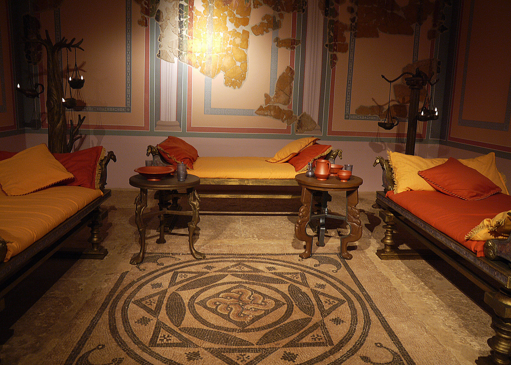 Triclinium of the Añón street (1st c. AC). Caesaraugusta